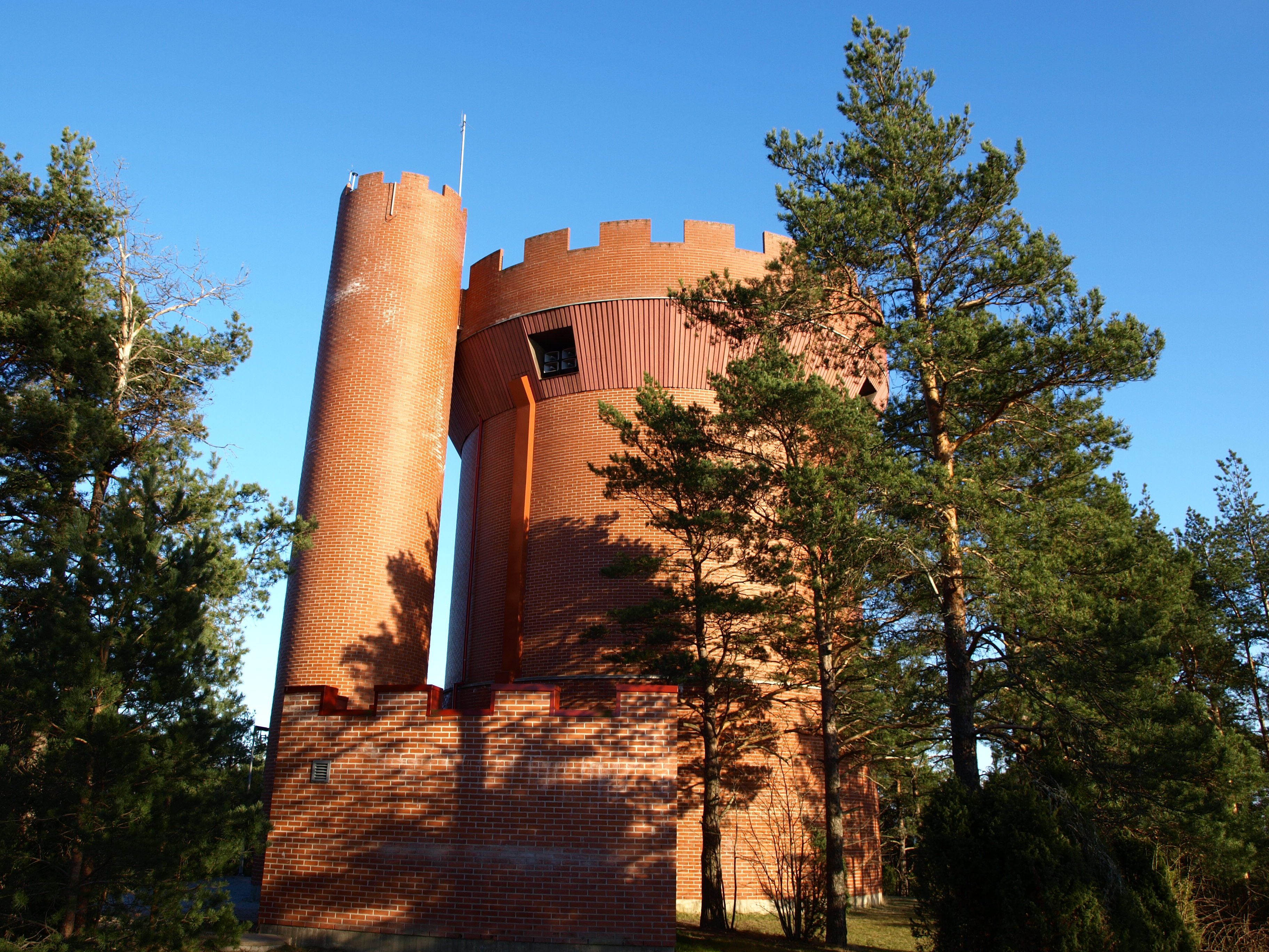 The Water tower of Halikko in Salo, Finland